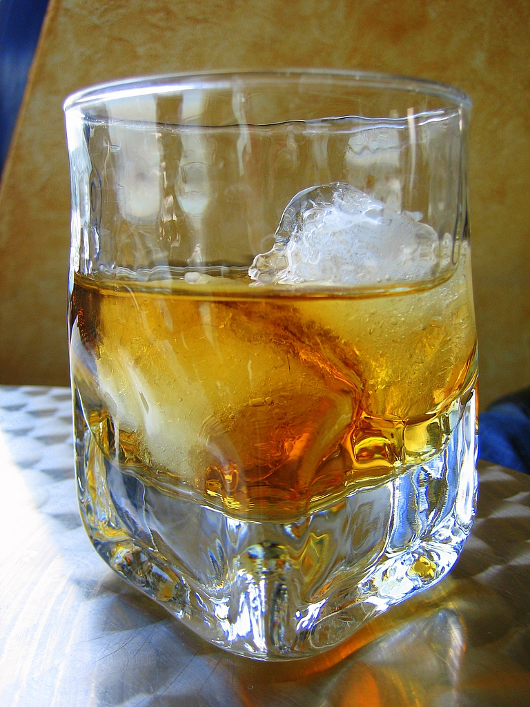 Mistela in "Dos Lunas" bar, in Denia.